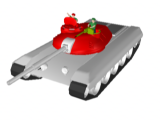 Tank turret highlight